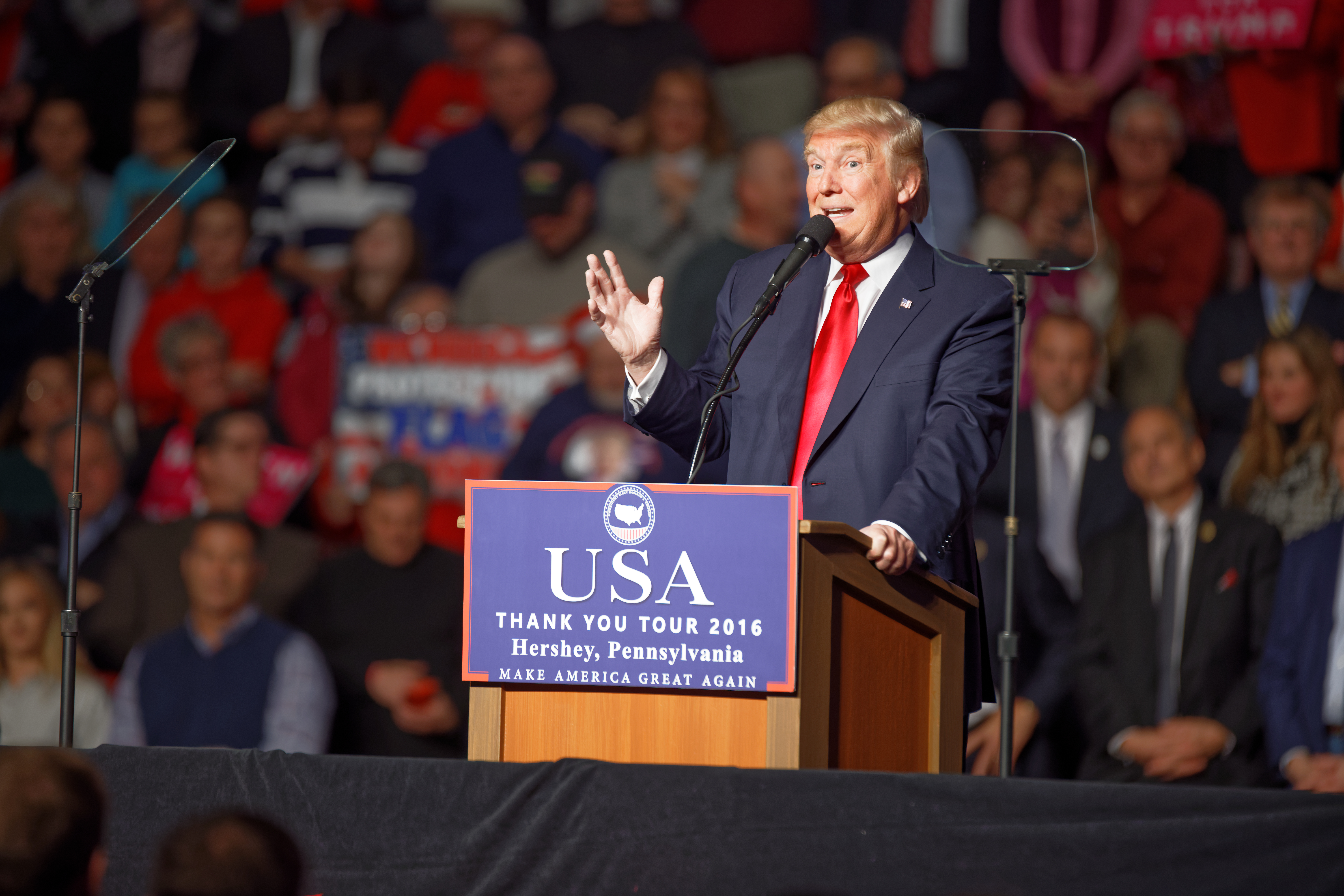 President-elect Donald Trump is bringing his post-election tour of gratitude to Hershey tonight, returning to the Giant Center six weeks after he was there for a last-minute push to win over Pennsylvania voters before Election Day. Trump and Vice President-elect Mike Pence are scheduled for a 7 p.m. rally, according to their campaign website. Doors open at 4 p.m. The “USA Thank You Tour” brings back Trump’s energetic rallies that filled venues in Pennsylvania and across the country during his year and a half of campaigning. The tour begain in Cincinnati, Ohio, and he has also stopped in Fayetteville, North Carolina and is scheduled for rallies in Iowa, Louisiana and Michigan. Four days before the Nov. 8 election, Trump told about 10,000 fans filling the Hershey arena that he predicted he would win the Keystone State, even as polls showed he was down by 3 percentage points to Democrat Hillary Clinton. He would go on to become the first Republican since George H.W. Bush in 1988 to win the state. Trump emerged with about 44,300 more votes than Clinton out of more than 6 million votes cast — winning by a margin of about three-quarters of one percentage point. At his Cincinnati rally on Dec. 1, he said he “had a lot of fun fighting” Clinton.